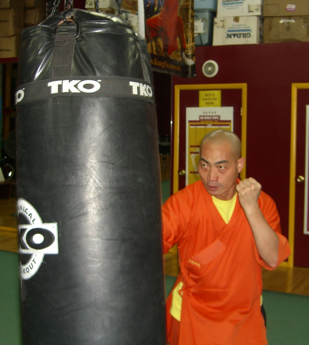 34th generation Shaolin warrior monk Shi Yan Ming, at the USA Shaolin Temple in Manhattan, November 4, 2010. Many thanks to Shifu Yan Ming and his staff. Photographed by Luigi Novi. This photo may be used, modified and published for any purpose, only if an easily visible credit to the photographer is placed near the photo in each instance in which it is used. (See licensing information below.) Publication of this photo without this proper attribution constitutes copyright infringement. For more information on my photos, you can contact me here.